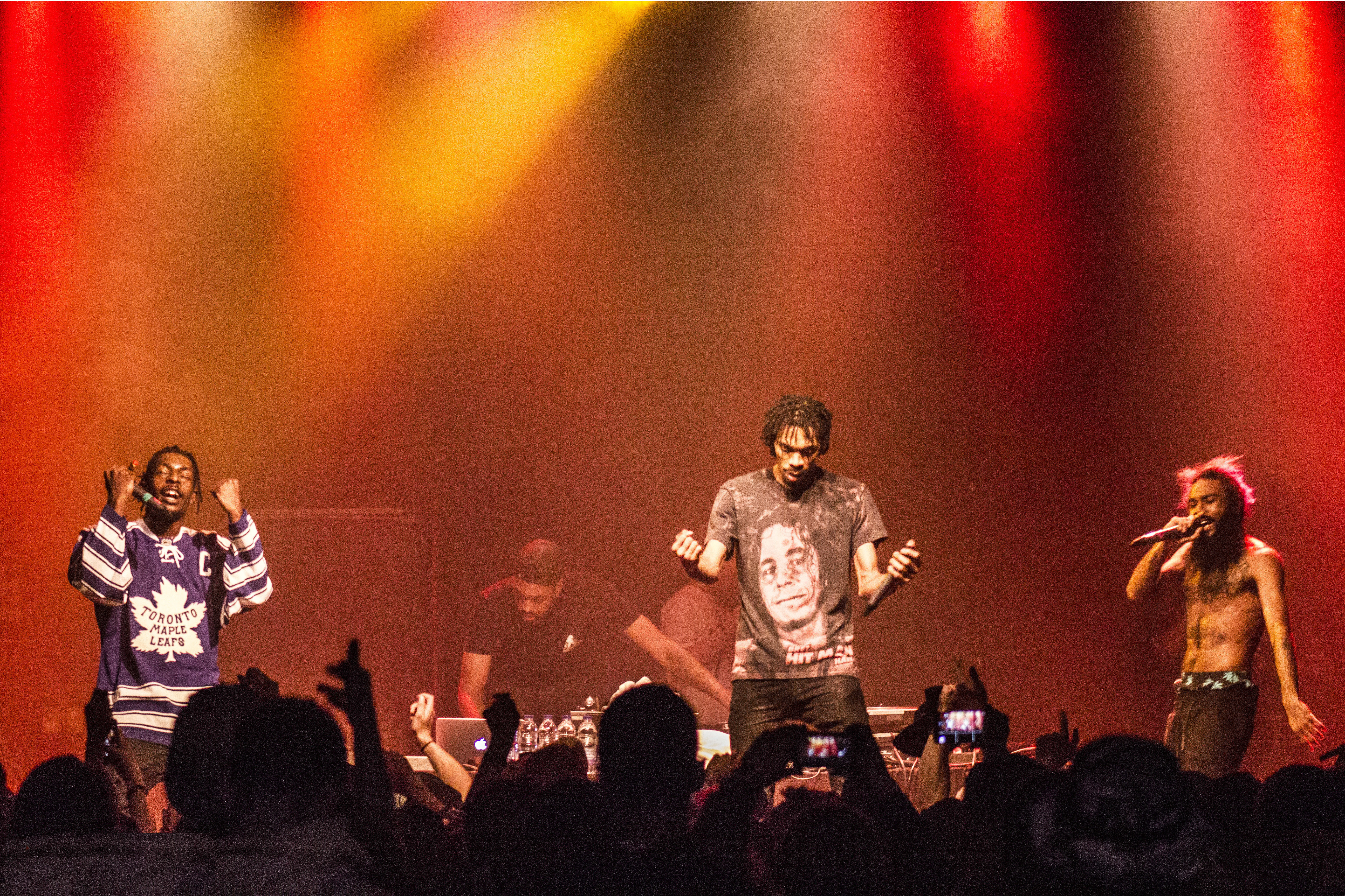 Flatbush Zombies May 9, 2014 The Phoenix Toronto Photography by Tiffany Komon for The Come Up Show. Check out the review at